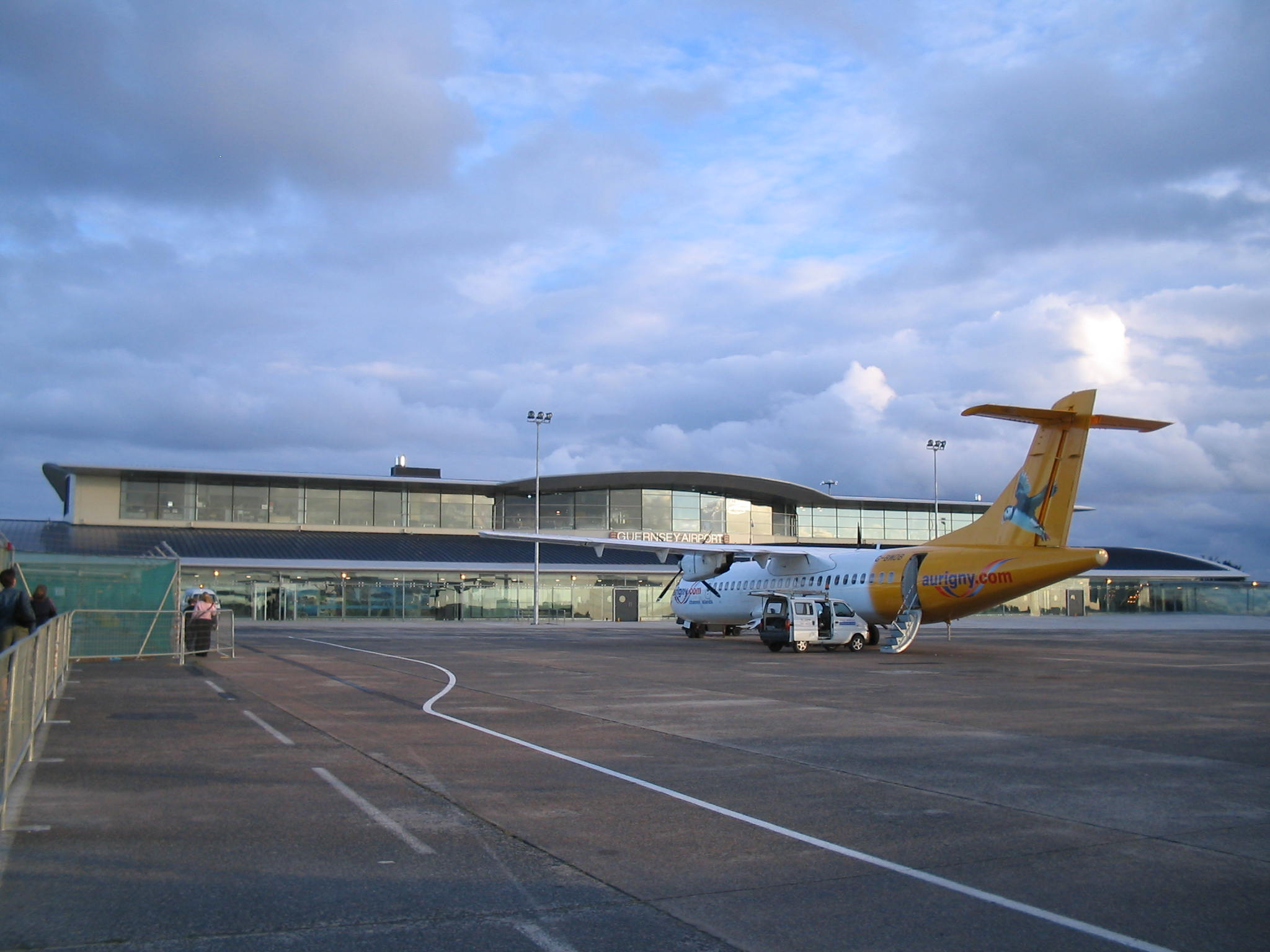 Guernsey International Airport, Channel Islands, British Isles. Showing Aurigny aircraft. Airport was only partially complete when this picture was taken.